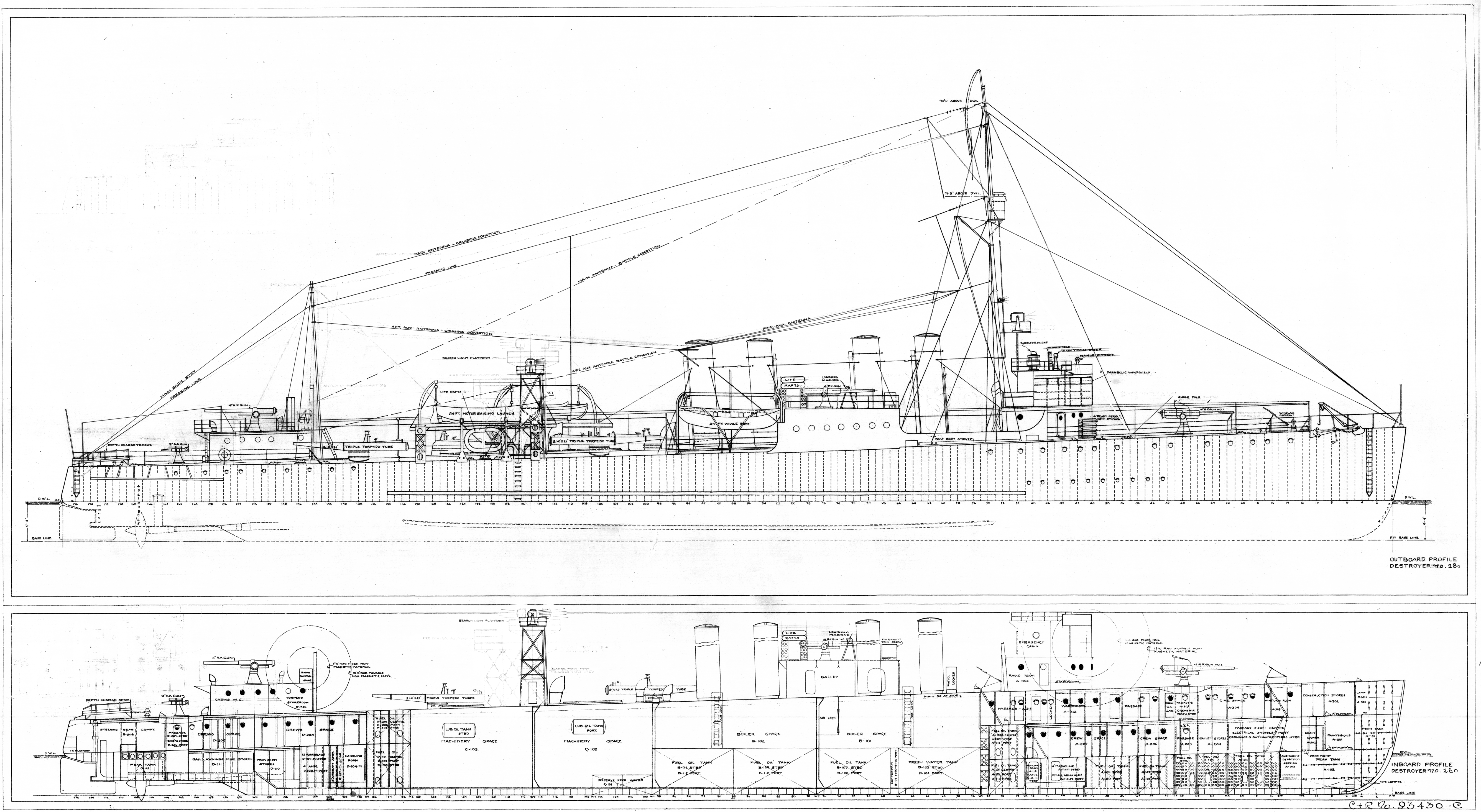 Inboard and outboard profiles for a U.S. Navy Clemson-class destroyer, in this case USS Doyen (DD-280). Note: The official title of the file is "USS Dyer". This would be the similar Wickes-class destroyer USS Dyer (DD-84). However, the original sheet states that the depicted ship is USS Doyen (DD-280).